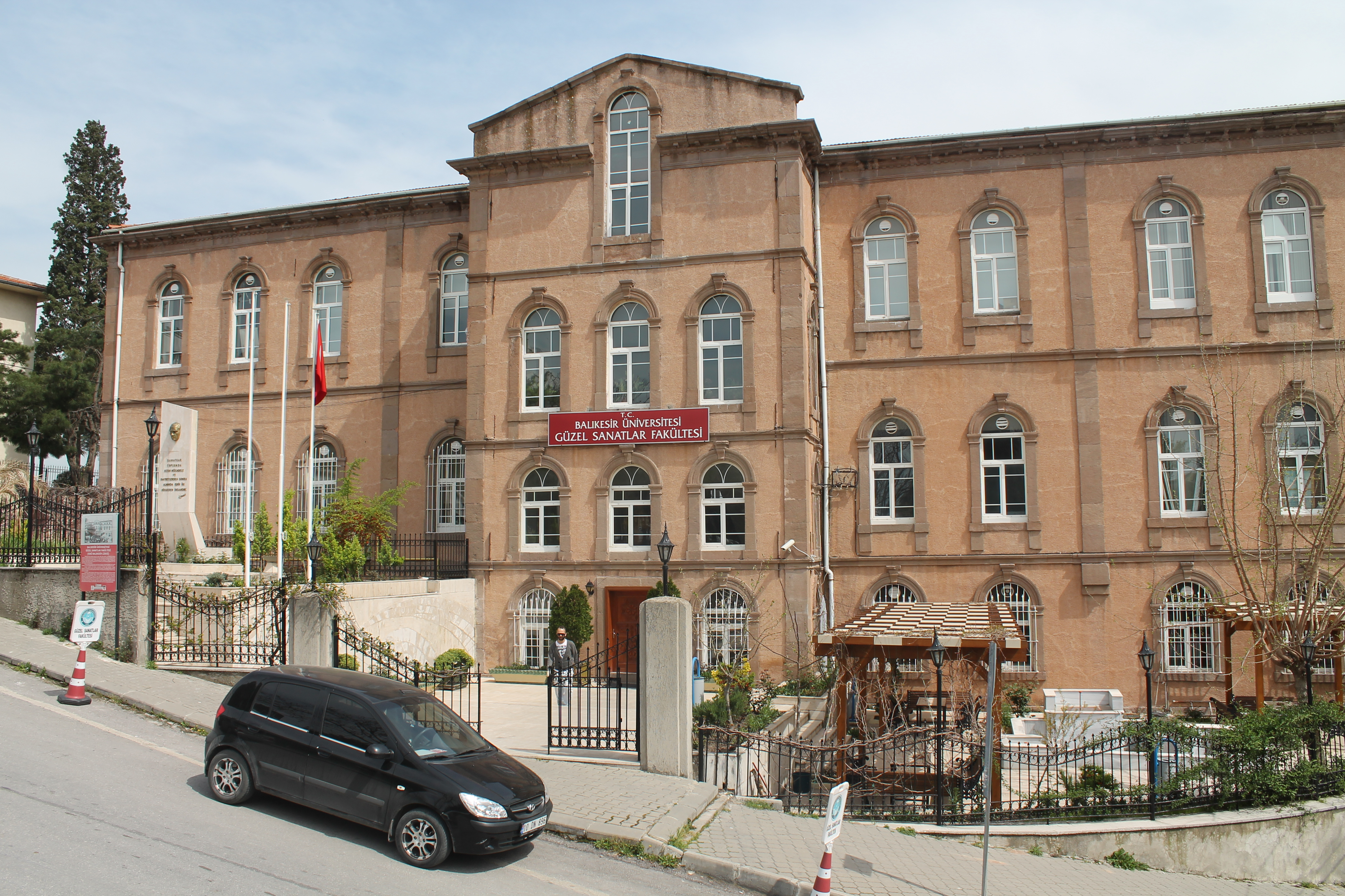 old Balıkesir highschool